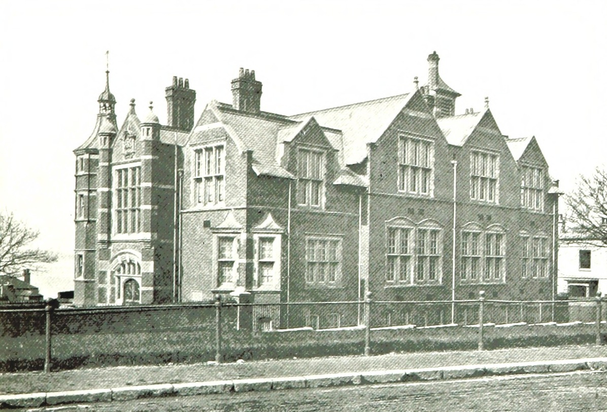 Adapted from a public domain image uploaded to Flickr Commons by the British Library. Details of the original image: Image taken from page 93 of 'Southampton. An historical guide to the places of interest in the town and neighbourhood, including the New Forest, Winchester, etc' Image taken from: Title: "Southampton. An historical guide to the places of interest in the town and neighbourhood, including the New Forest, Winchester, etc", "Appendix" Shelfmark: "British Library HMNTS 10360.dd.19." Page: 93 Place of Publishing: Southampton Date of Publishing: 1899 Publisher: J. Adams Issuance: monographic Identifier: 003448086